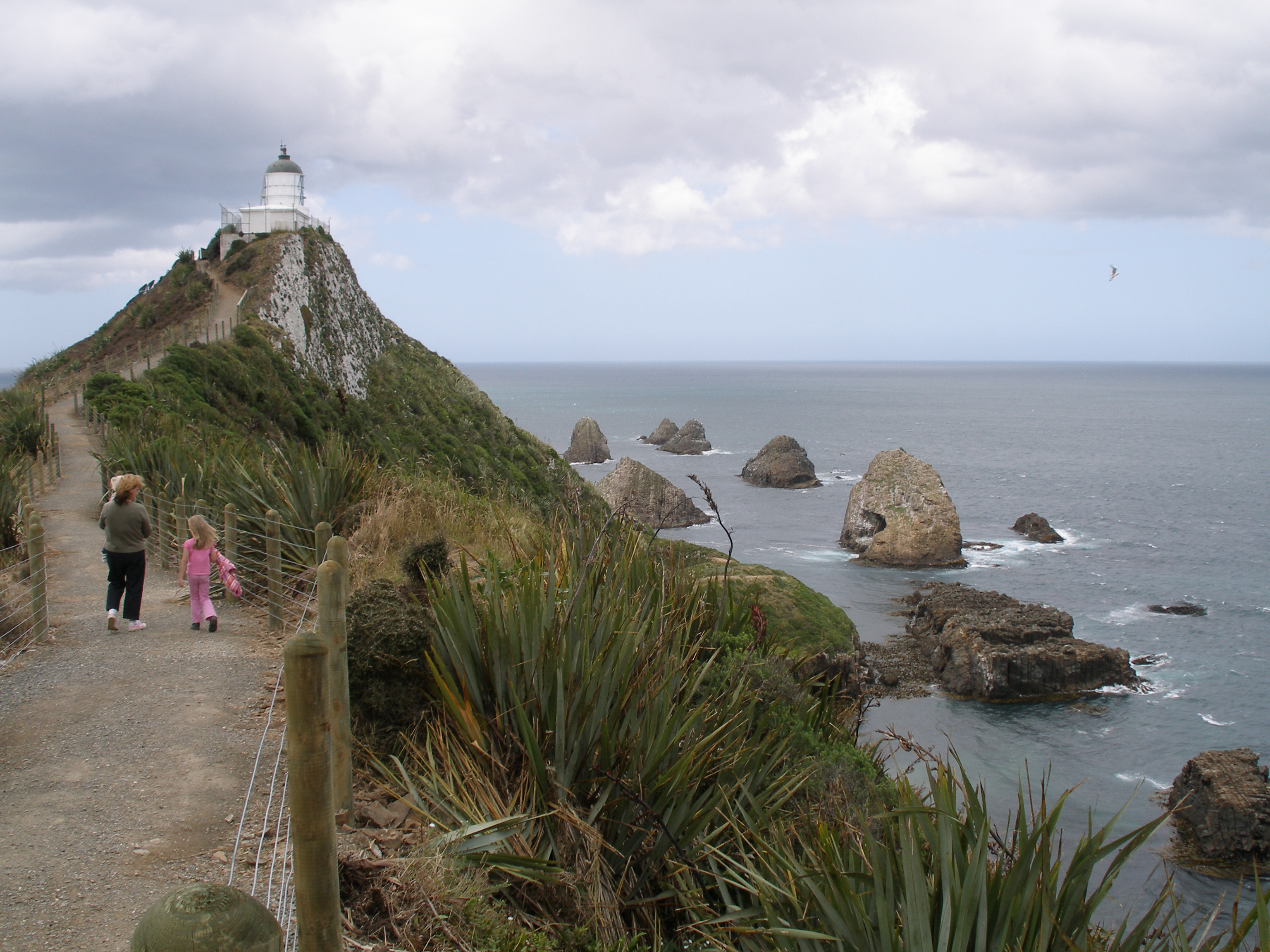 View along path towards Nugget Point lighthouse, Otaga coast, New Zealand. First lit 1869. Rocky islets (The Nuggets) can be seen on the left.